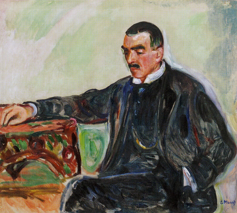 Portrait of Jappe Nilssen